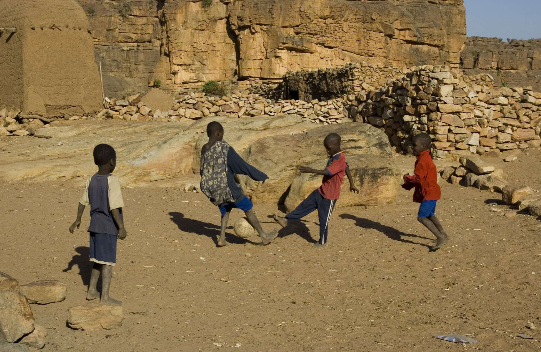 Children playing soccer, Dogon region, Mali